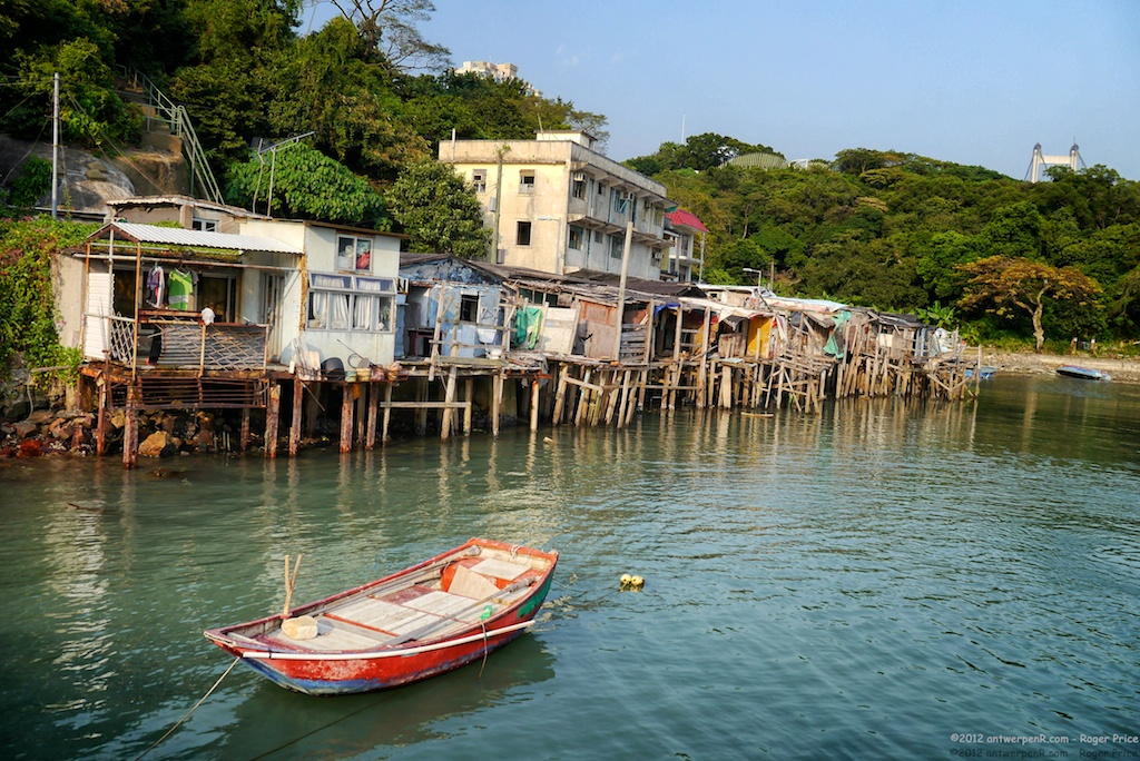 馬灣 - Rooms with a view